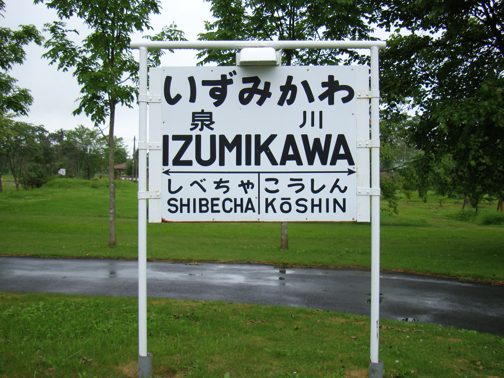 Izumikawa Station Running in board on Bekkai railway Memorial park. Disused train stations on Shibetsu Line.